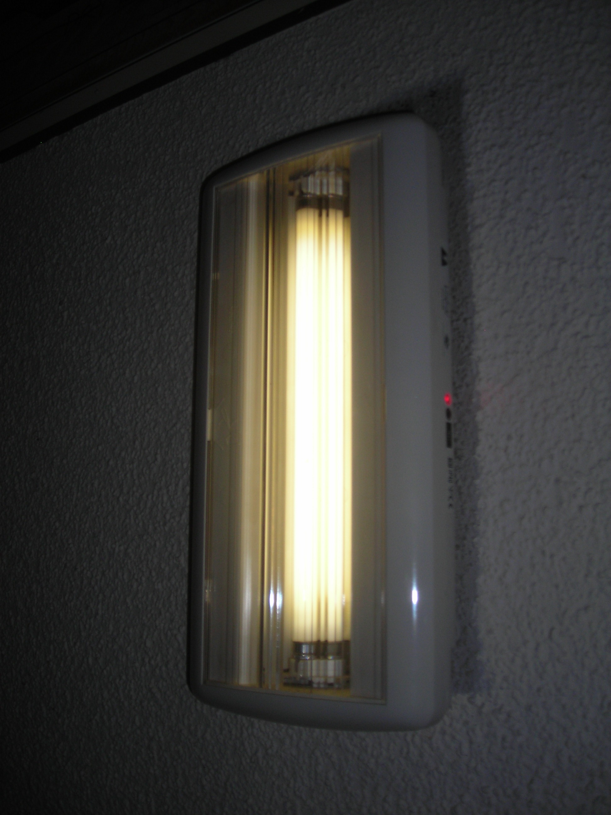 A modern emergency light